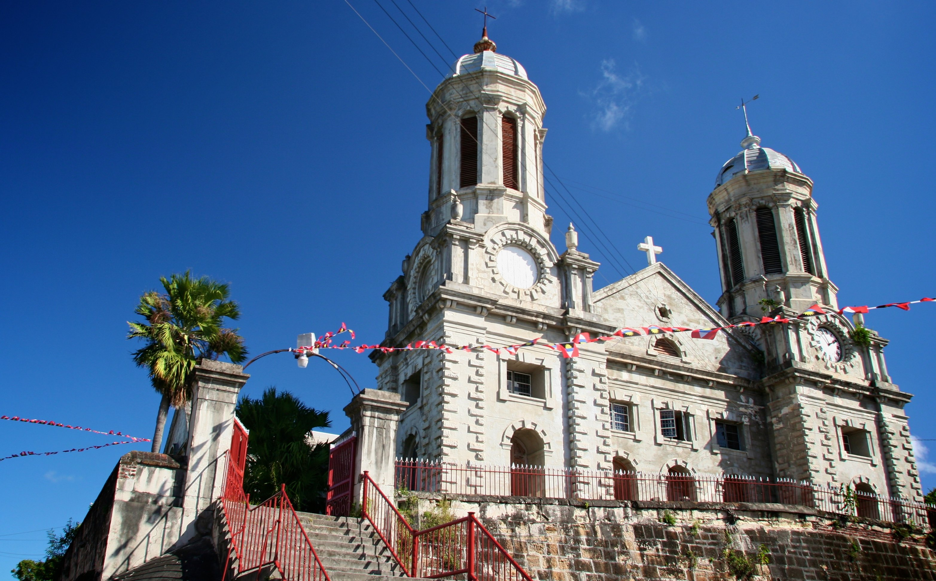 Exploring St, John's Antigua